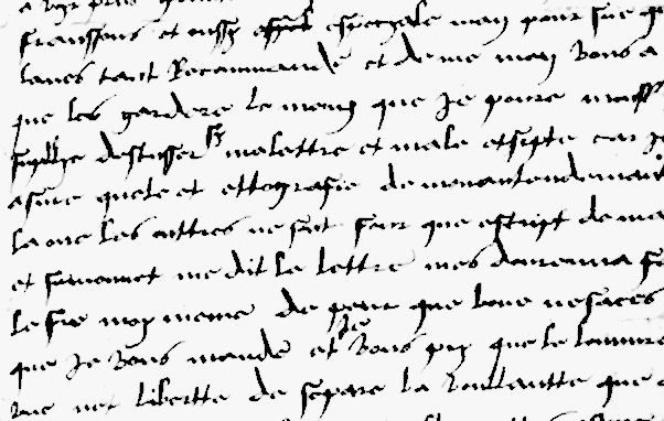 Handwriting of Anne Boleyn